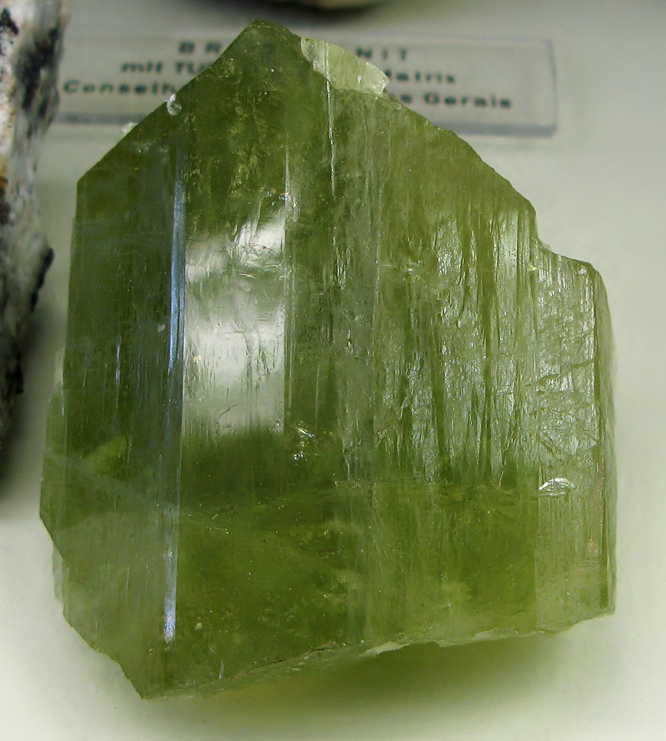 Brazilianite - Locality: Galilea, Minas Gerais, Brazil - Exposed in the Mineralogical Museum, Bonn, Germany